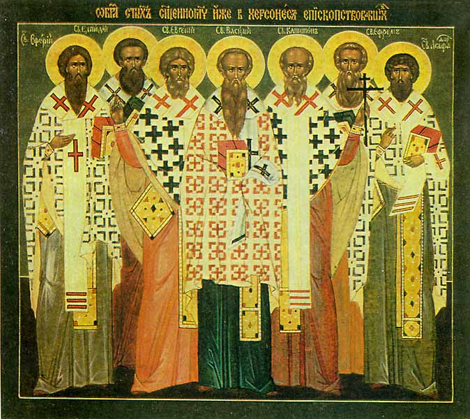 Icon with saints martyrs of Crimea (Basilius, Eugenius, Agathadorus, Elpidius, Eterius, Capito, and Ephraim)